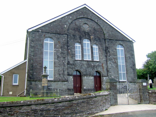 Double doors at Llwynyrhwrdd chapel This 1879 chapel near Tegryn had separate doors for men and women. For such a magnificent edifice in such a splendid setting, it seems a shame to have used plastic replacements.